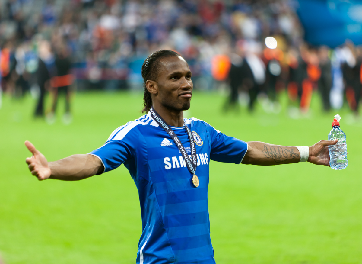 UEFA Champions League Final. FC Bayern München 1-1 Chelsea FC (aet, Chelsea win 4-3 on penalties)